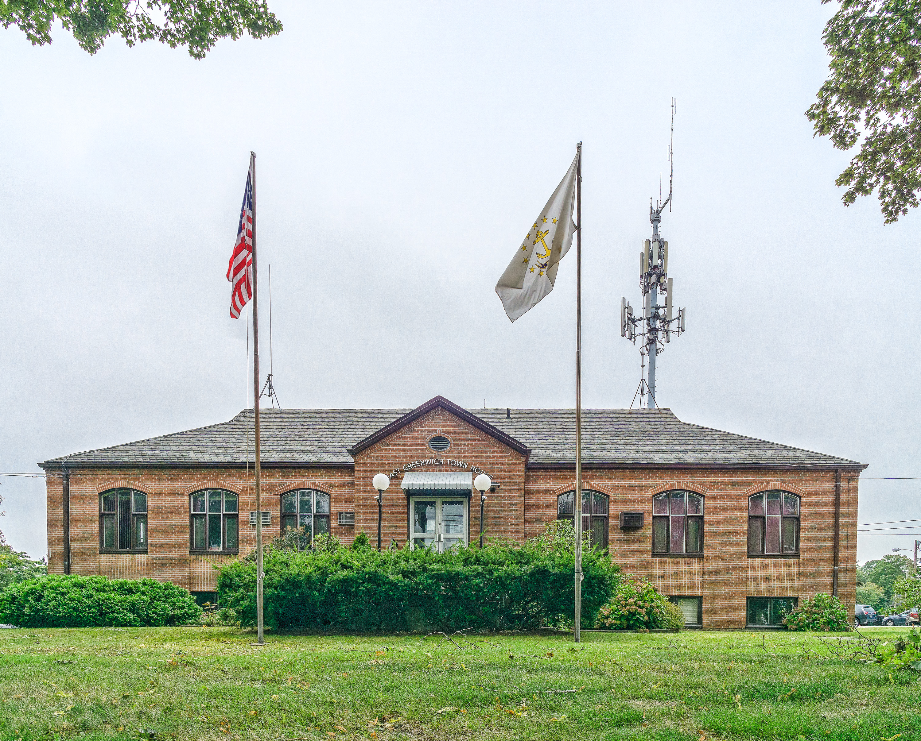 East Greenwich Town House, 111 Pierce Street, home of the East Greenwich public schools central office.